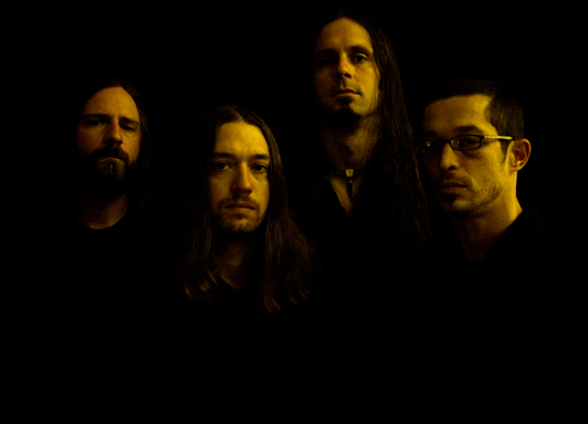 yakuza (band) photo 2007